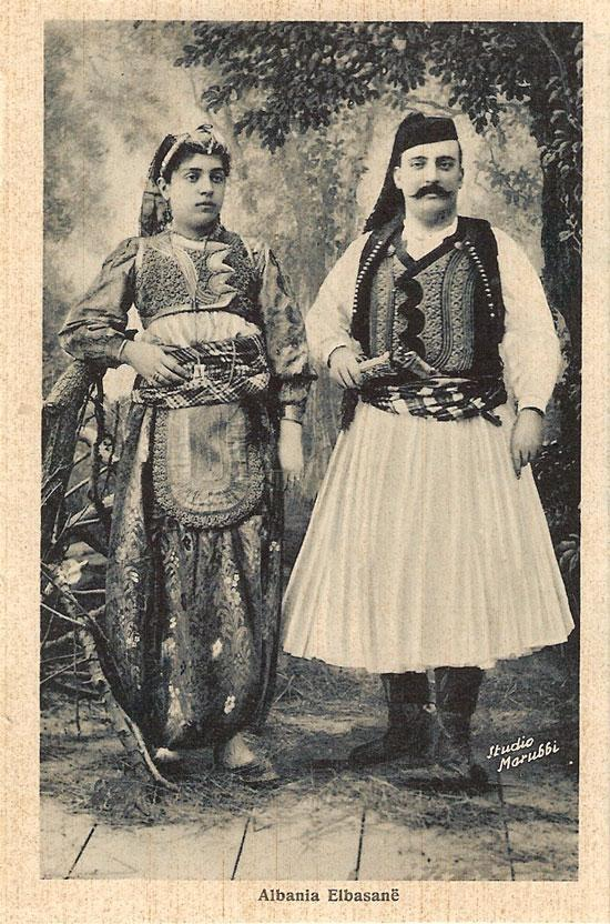 Photograph of an Albanian man and woman from Elbasan by Pjetër Marubi.